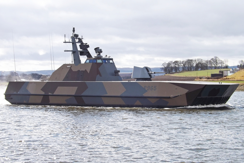 P965 KNM Gnist, a Skjold-class patrol boat of the Royal Norwegian Navy